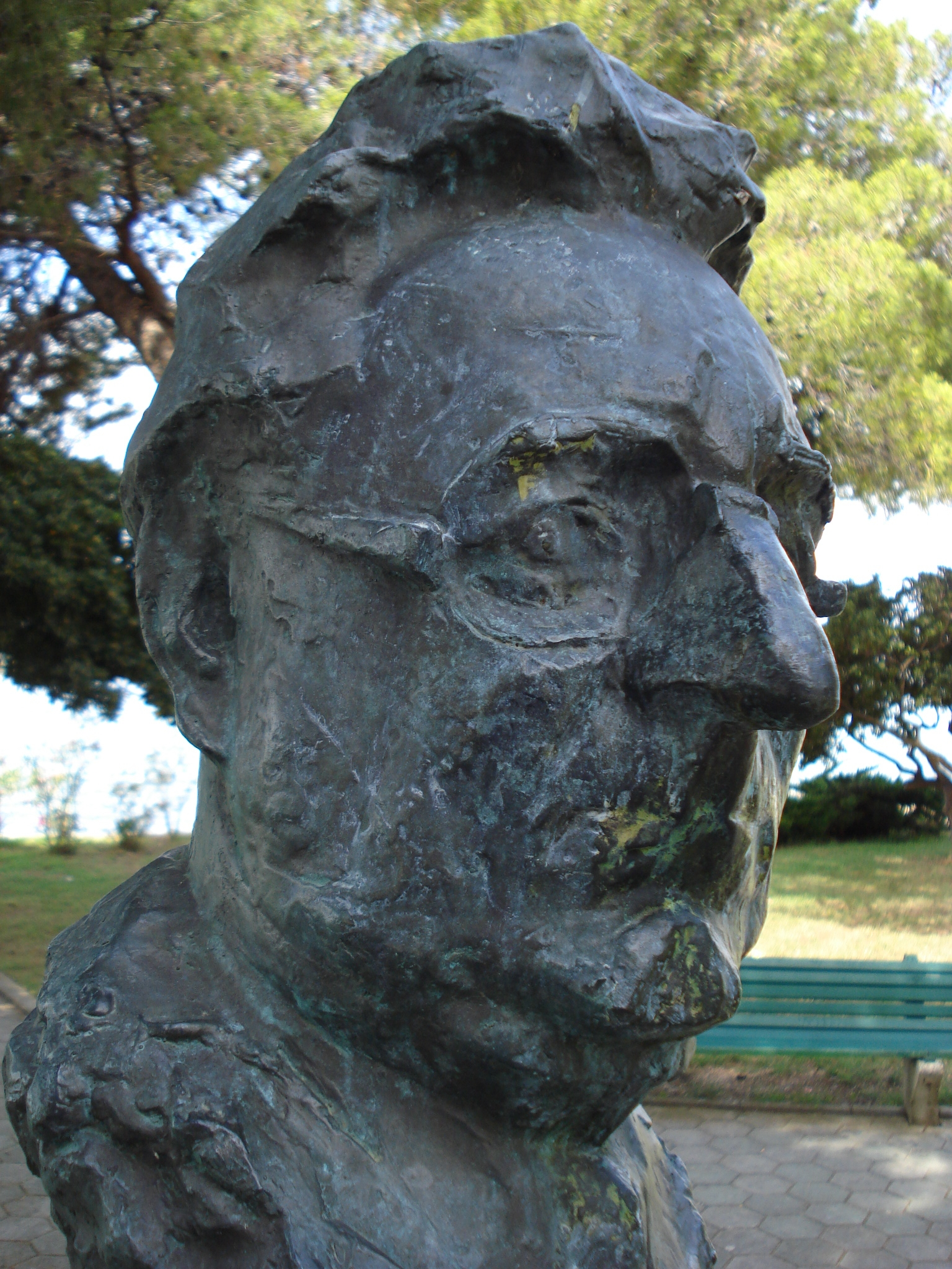 Franjo Tudjman, PhD (1922-1999), First Croatian President - bust in Sveti Filip i Jakov village, Croatia (right three-quarter view)